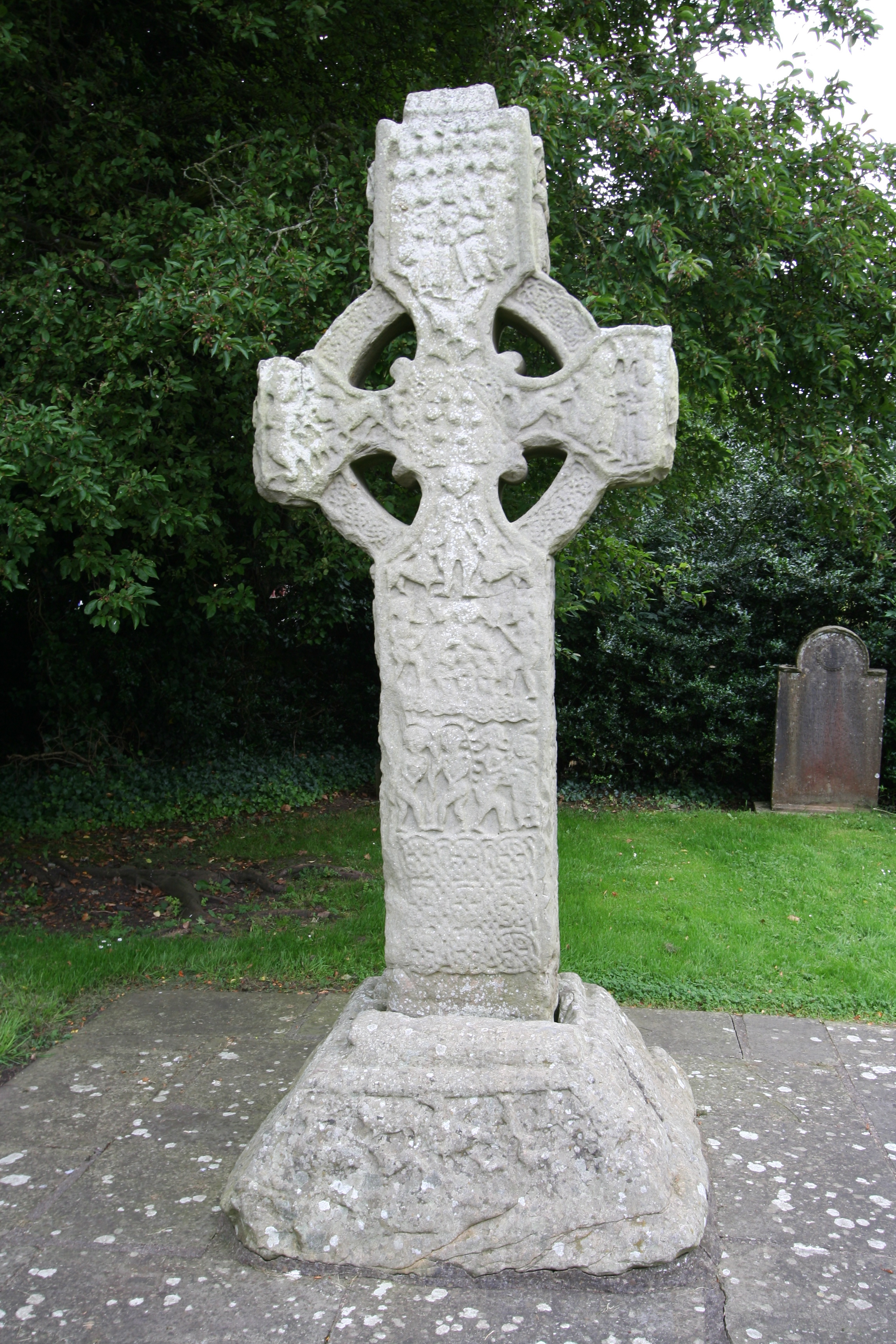 Kells Abbey, Kells, Meath countyMonasterio de Kells